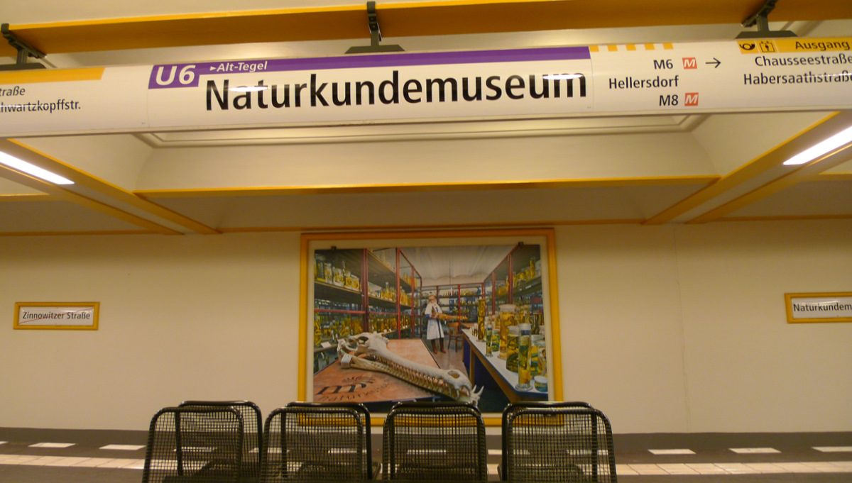 Subway station Naturkundemuseum U-Bahn Berlin